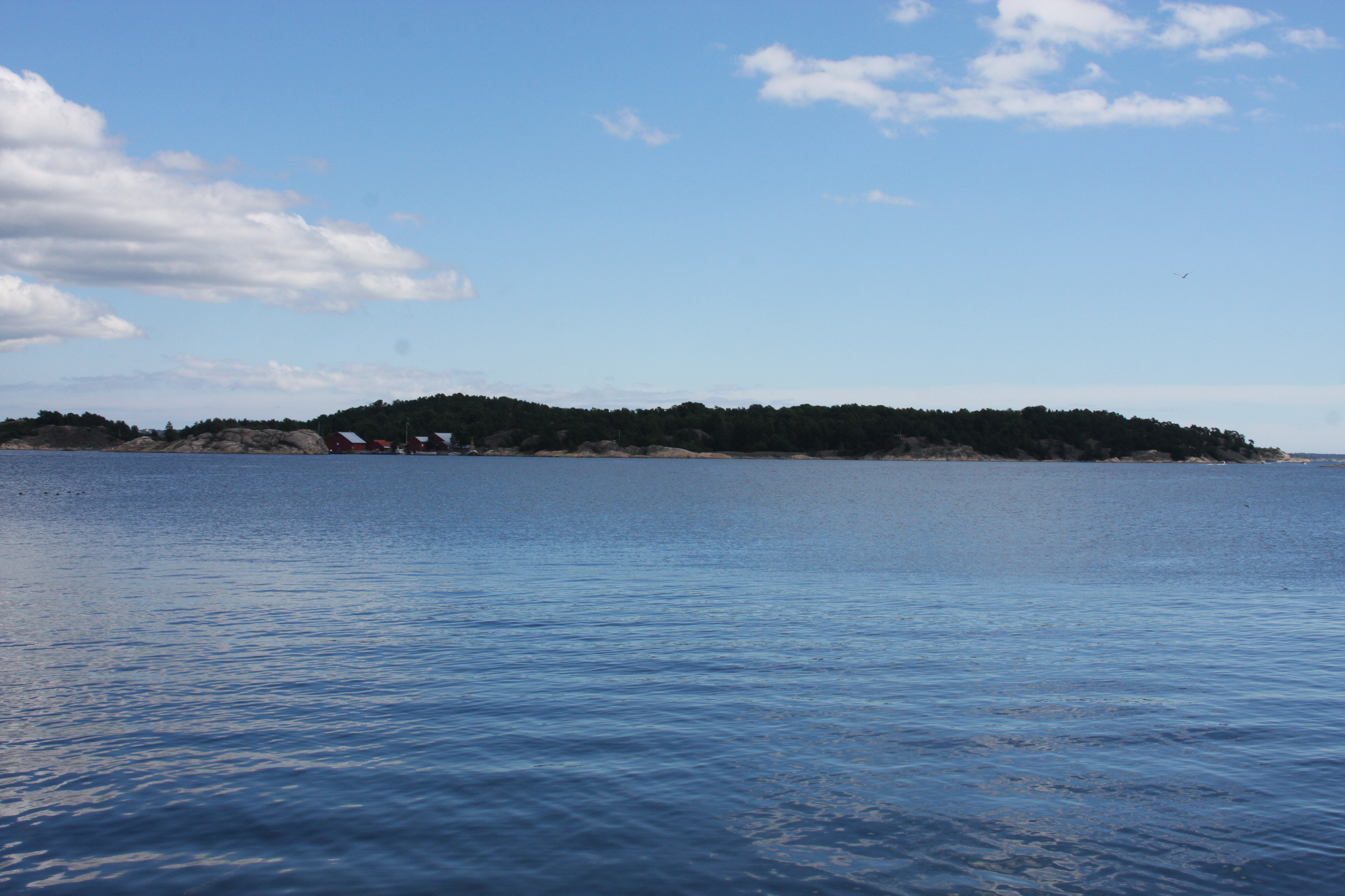 Bragdøya island in Kristiansand, Vest-Agder (Norway)